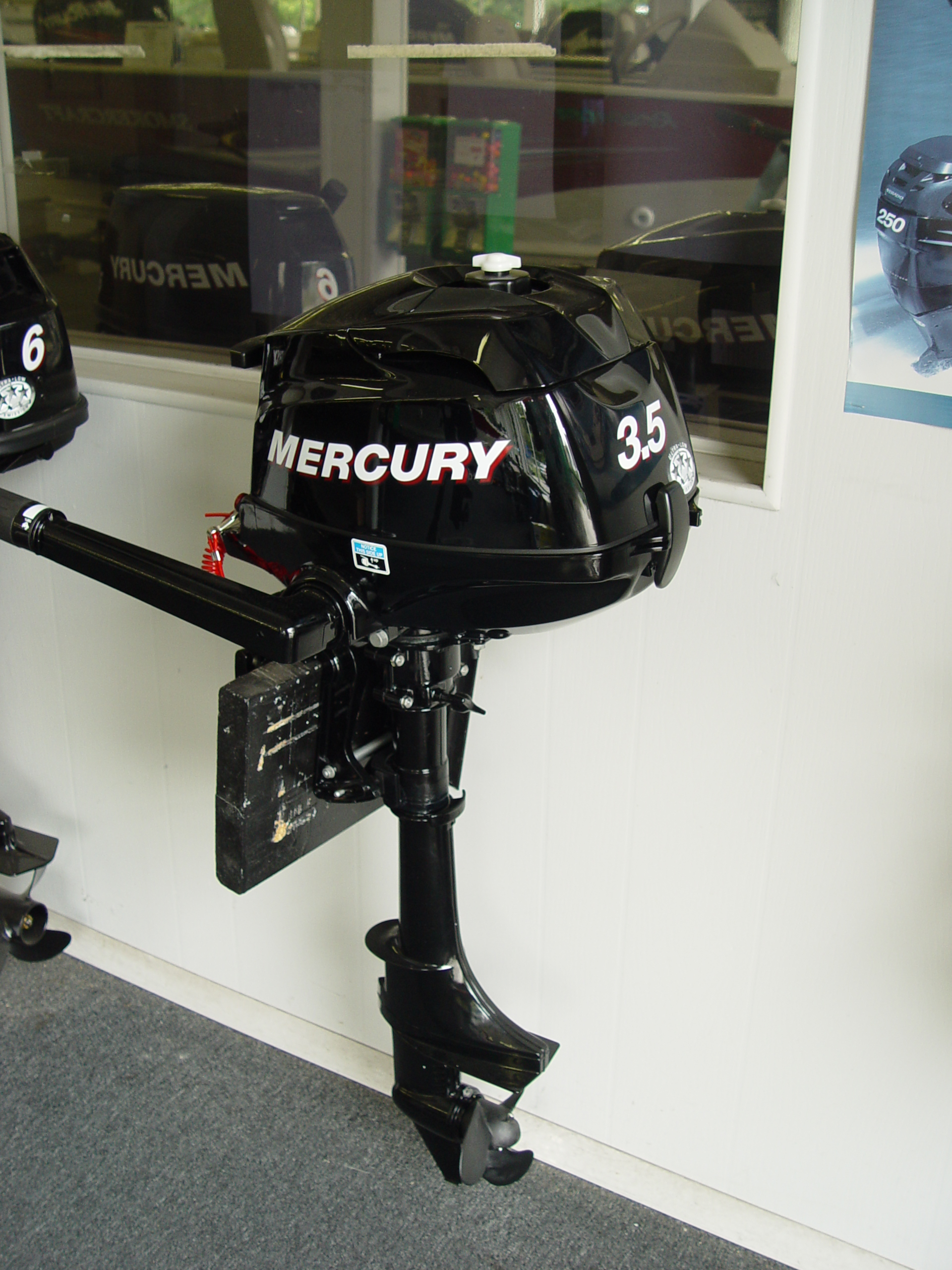 3.5 liter Mercury engine.